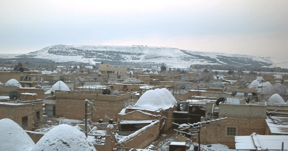 View of Hass Mountain from Sfireh